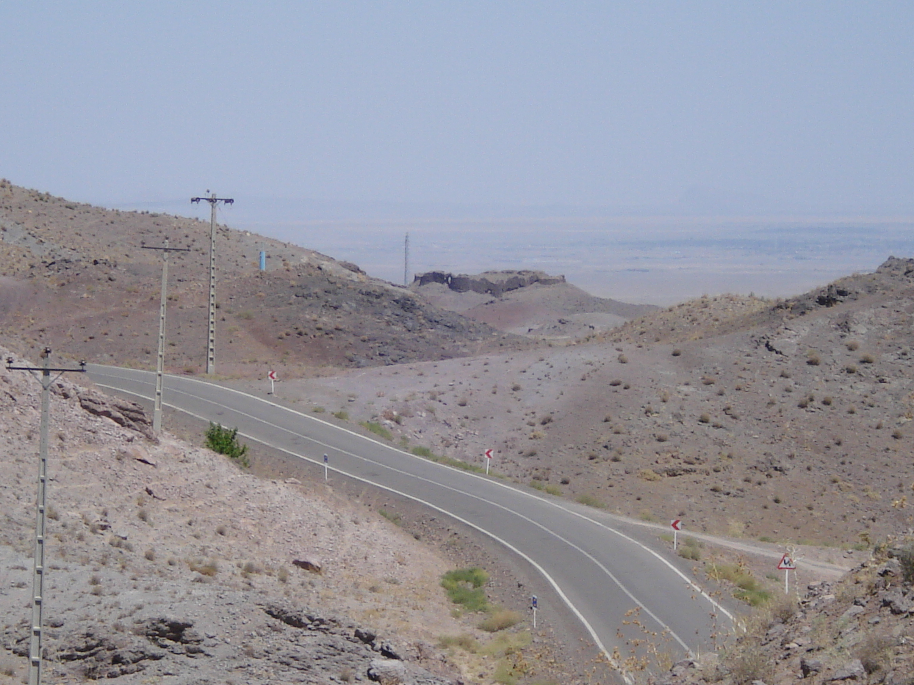 Castle of Zibad from the top of Shahneshin castle of the last shelter of yazdgerd third